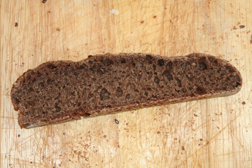 White flour sourdough bread turned dark brown due to some unknown impurity in the starter